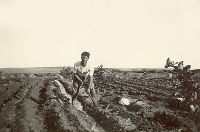 orchad beginnig, Agriculture in Israel